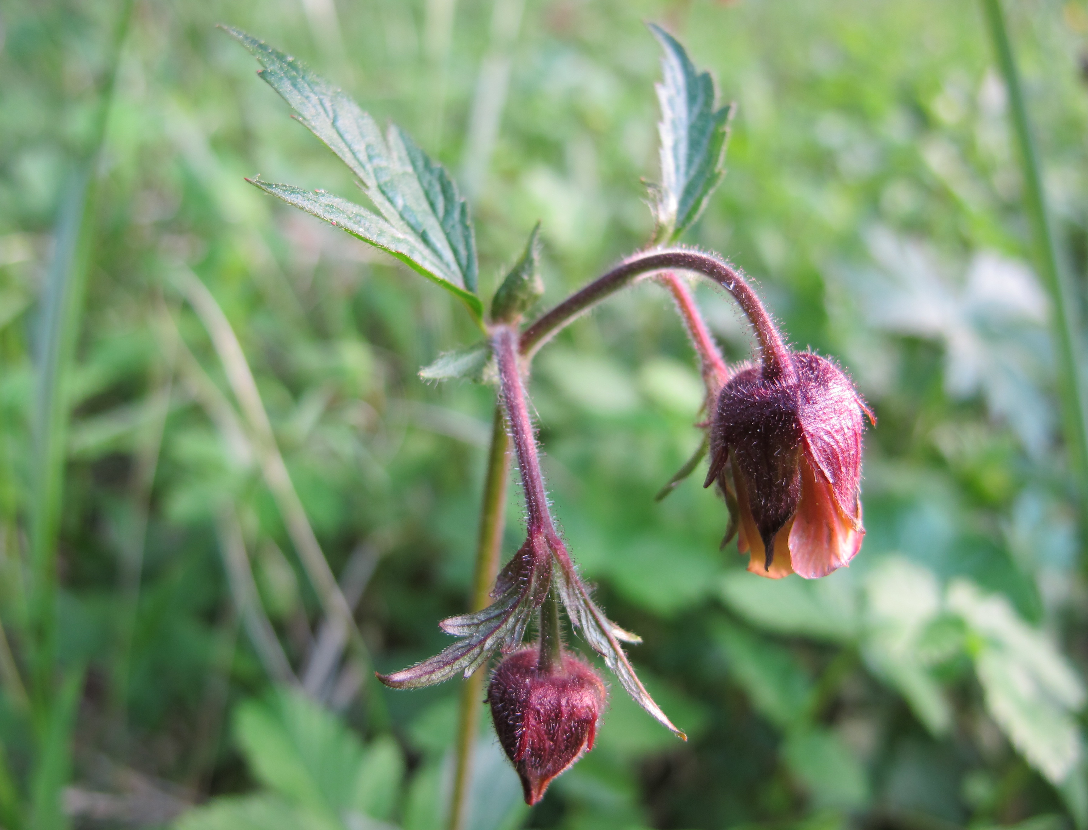 Geum rivale in nature reserve Andělské schody, near Voznice in Příbram District